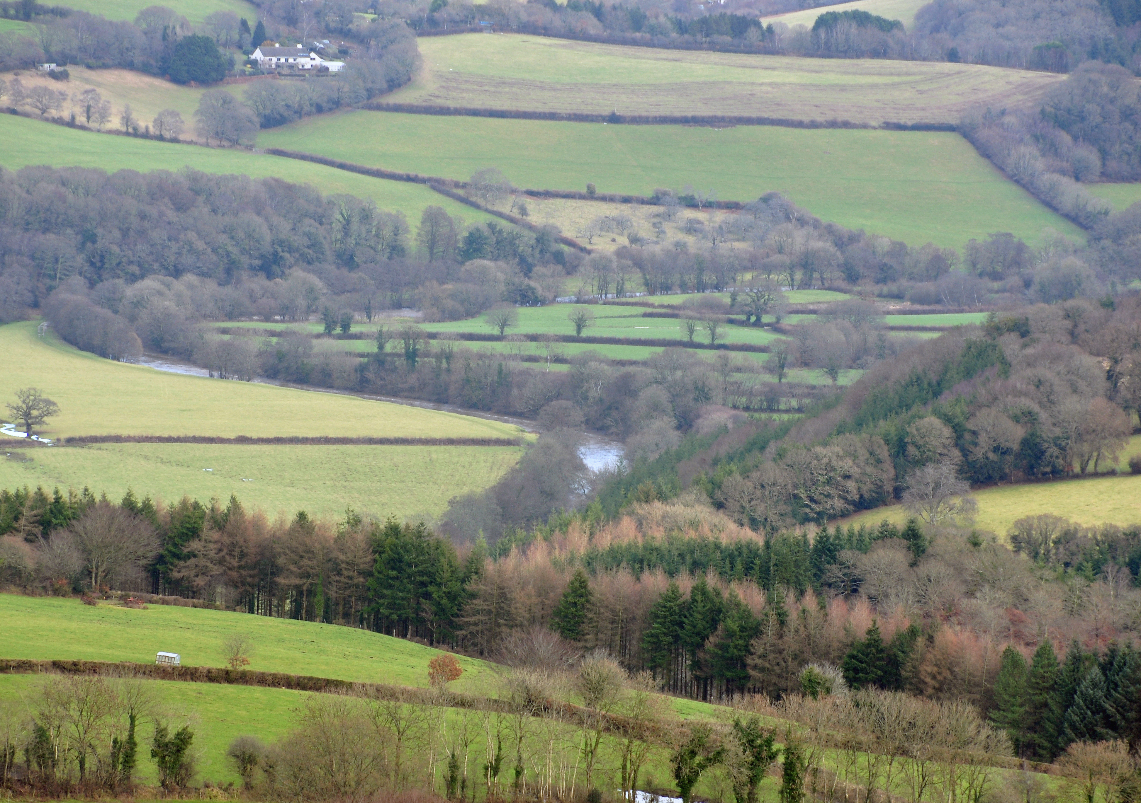 The River Tamar, near Luckett, from Kit Hill in Cornwall.